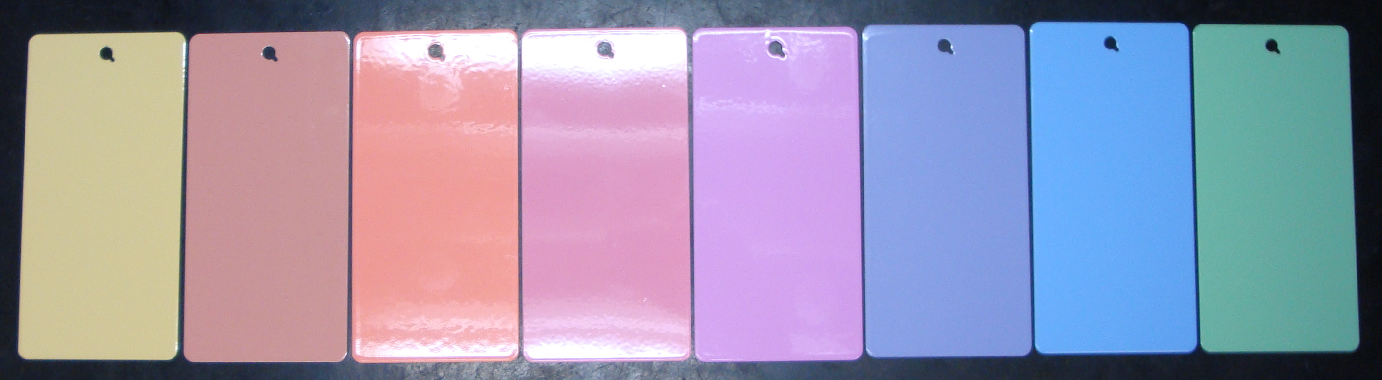 White reduction, adjusted to 1/25 standard colour depth. The following pigments were used: C.I. Pigment Yellow 53, C.I. Pigment Red 101, C.I. Pigment Orange 43, C.I. Pigment Red 254, C.I. Pigment Red 122, C.I. Pigment Violet 23, C.I. Pigment Blue 15:3, C.I. Pigment Green 7